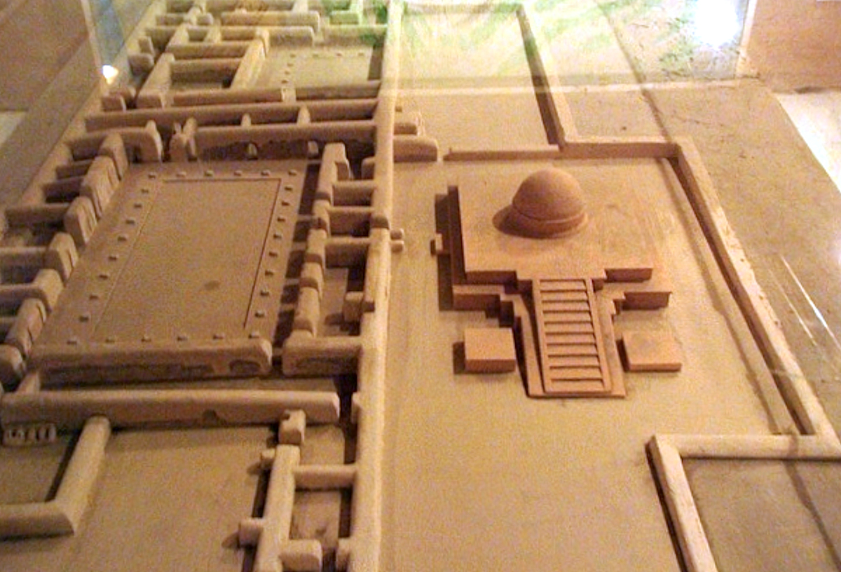 Fayaz Tepe, Monastery and Stupa, model of 1st-4th centuries CE buildings.